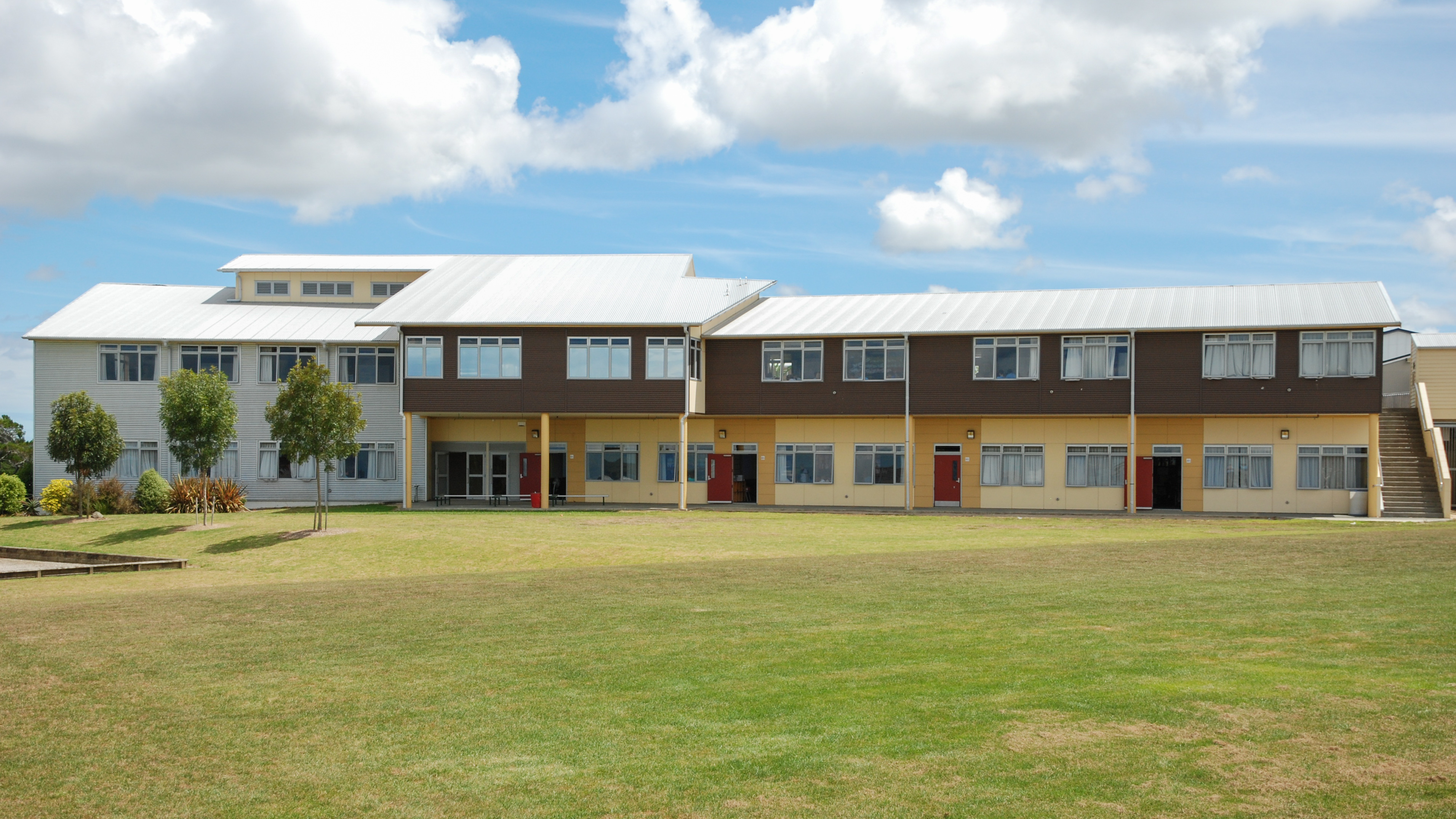 The Maths Building, aka M Block, of Rangitoto College, Auckland, as seen from the nearby Rugby Field